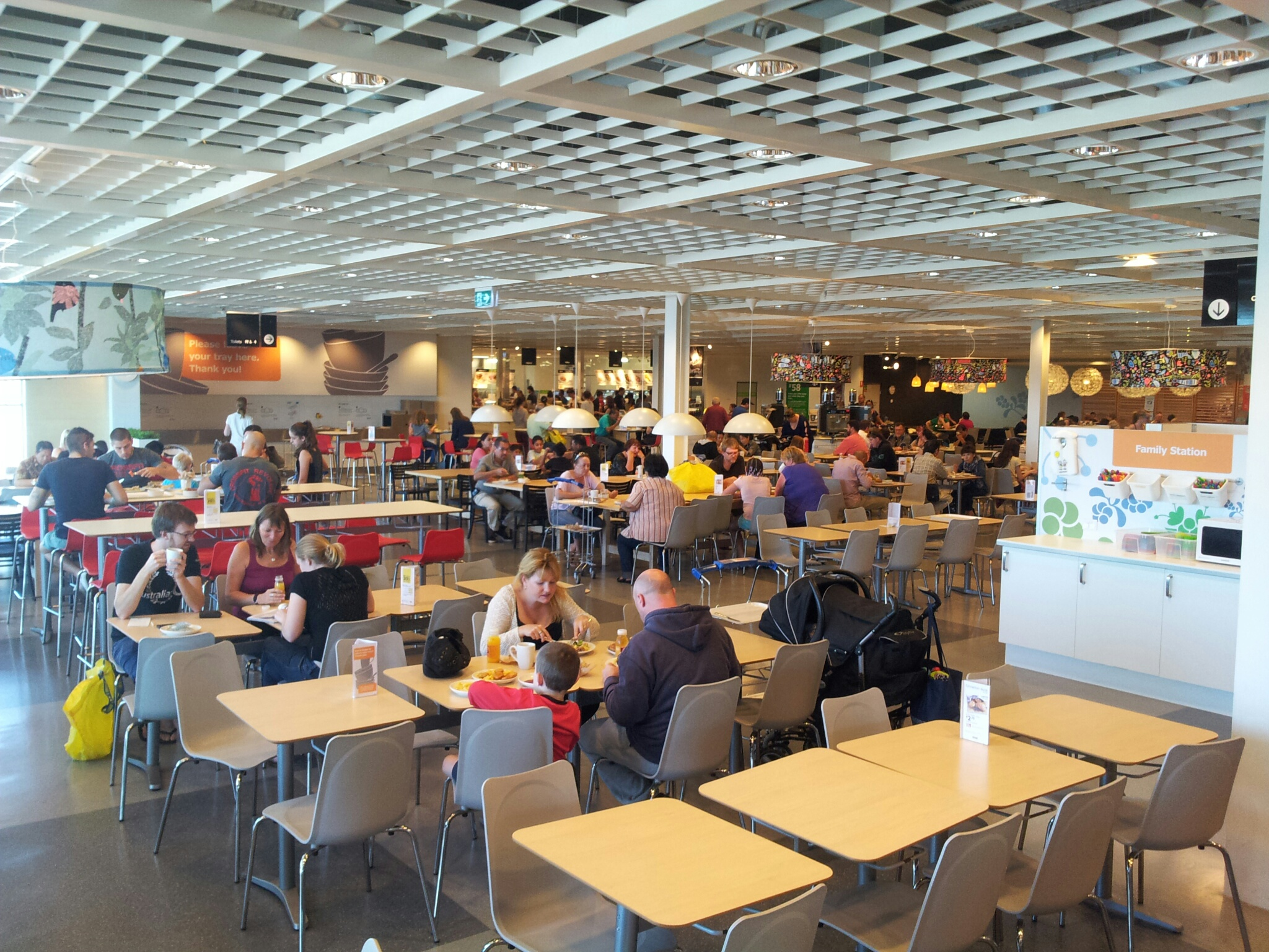 Canteen at IKEA store located at 634-726 Princes Highway, Tempe NSW 2044